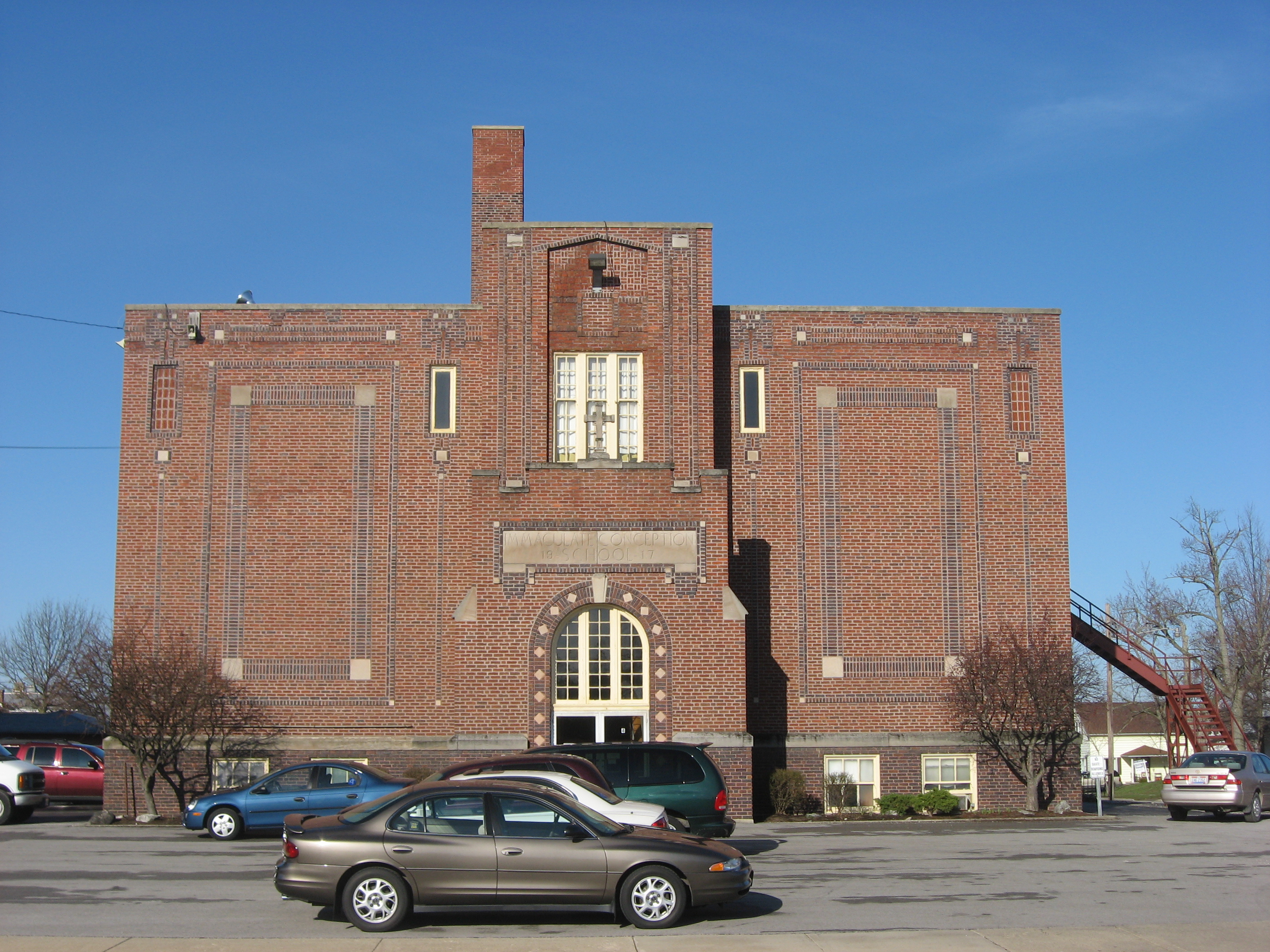 Front of Immaculate Conception Catholic School, located on the southwestern corner of the intersection of Wayne and Walnut Streets in downtown Celina, Ohio, United States. Built in 1918, the school is part of the Immaculate Conception Catholic Church Complex, which was listed on the National Register of Historic Places as a part of the Cross-Tipped Churches of Ohio Thematic Resources.